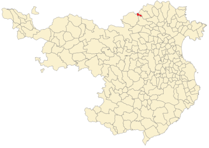 La Vajol